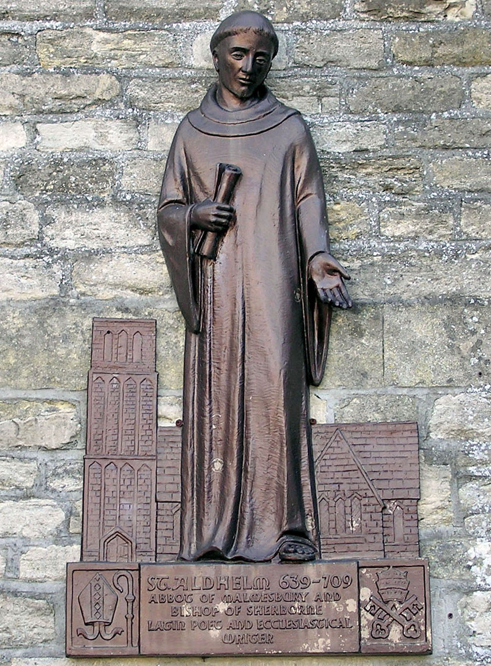 Wall plaque at the Catholic Church of St Aldhelm, Malmesbury. It says “St Aldhelm 639-709, Abbot of Malmesbury and Bishop of Sherborne, Latin Poet and Ecclesiastical Writer." Taken by Adrian Pingstone in February 2005 and released to the public domain.